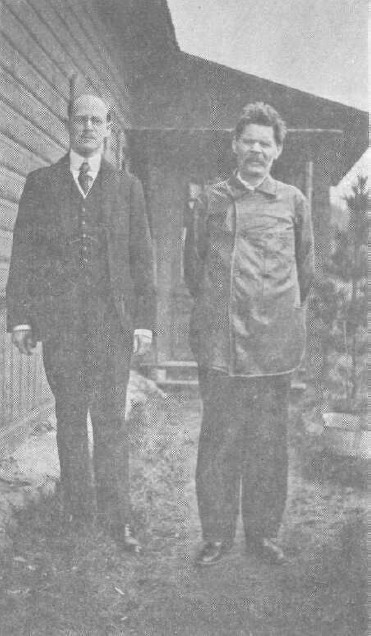 Russian doctor Ivan Manukhin (left) and writer Maxim Gorky (right) in 1914 Mustamaki (Finland).